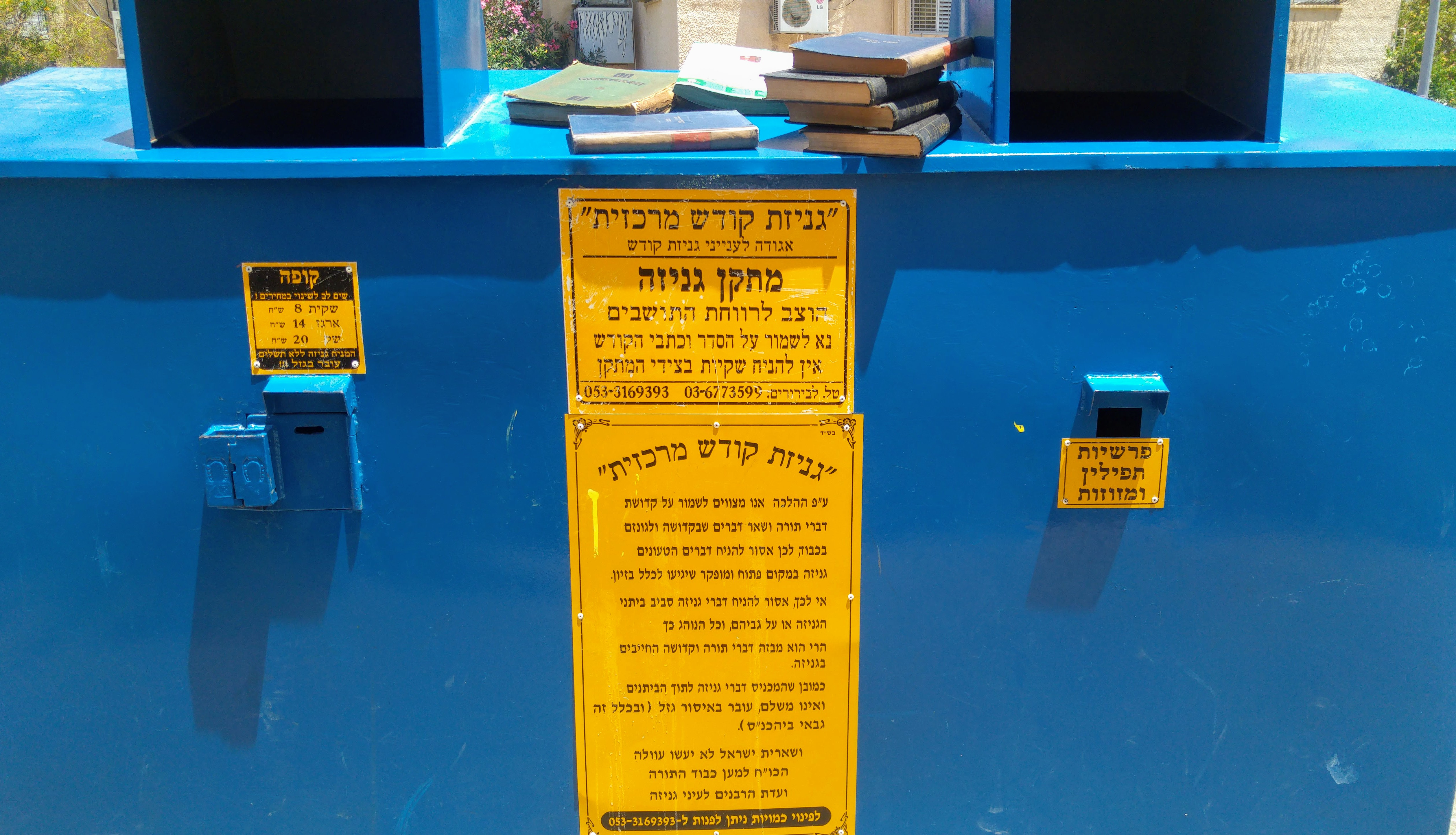 Recycling and Genizah bins in Ibn Gabirol street, Bnei Brak